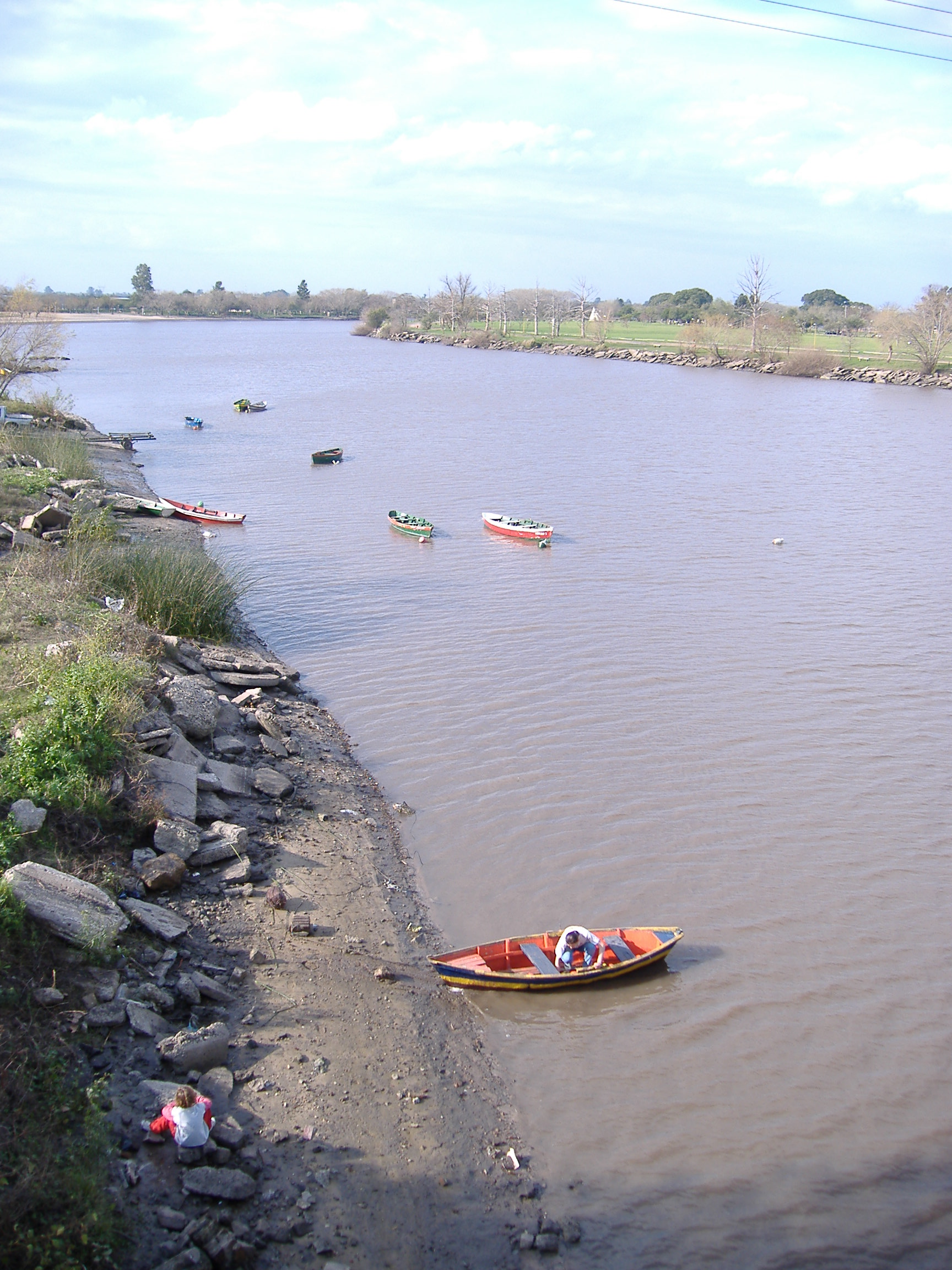 The Gualeguaychú River before the city of Gualeguaychú, Entre Ríos, Argentina